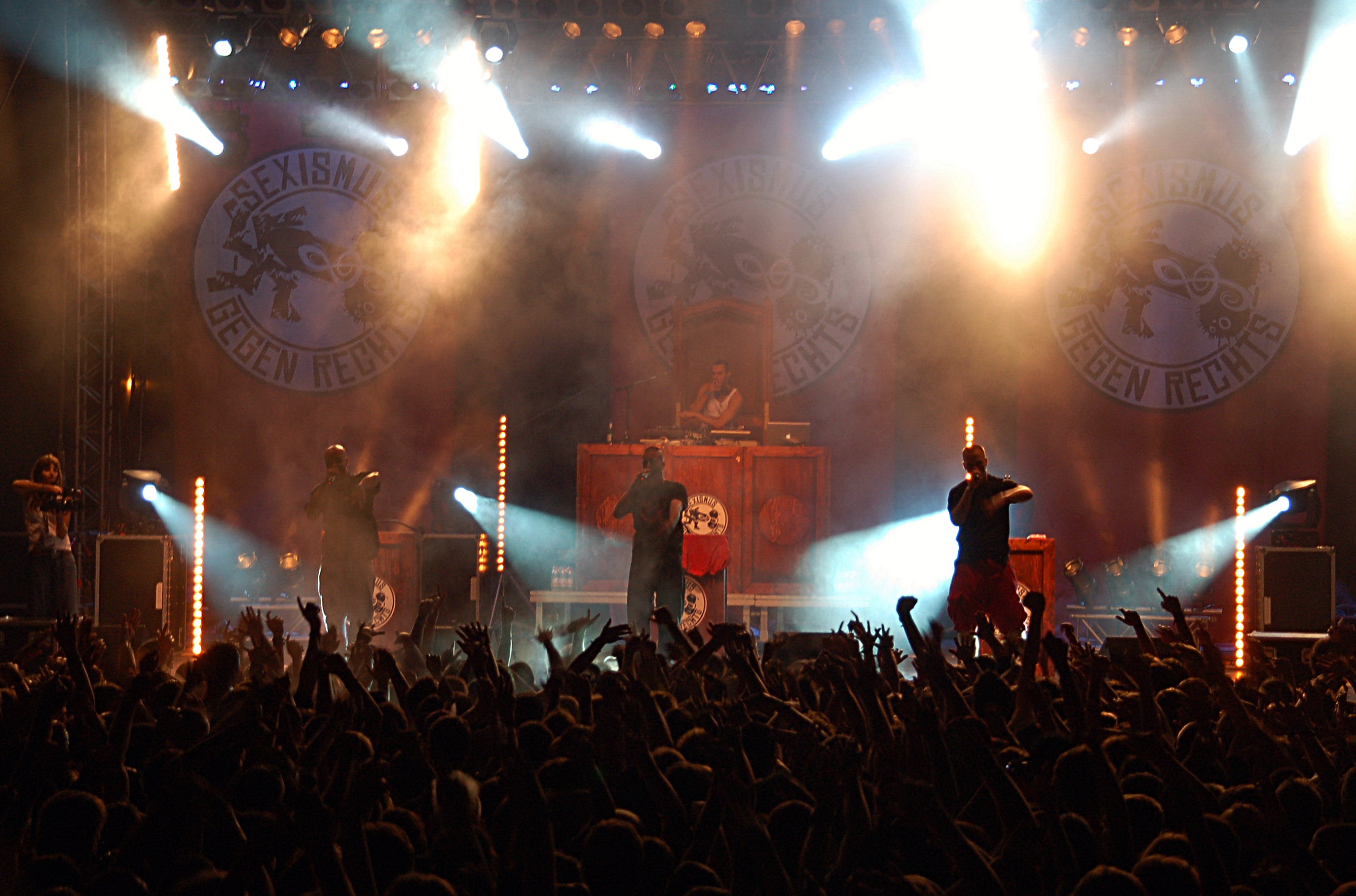 K.I.Z. at the Mini-Rock-Festival 2009 in Germany